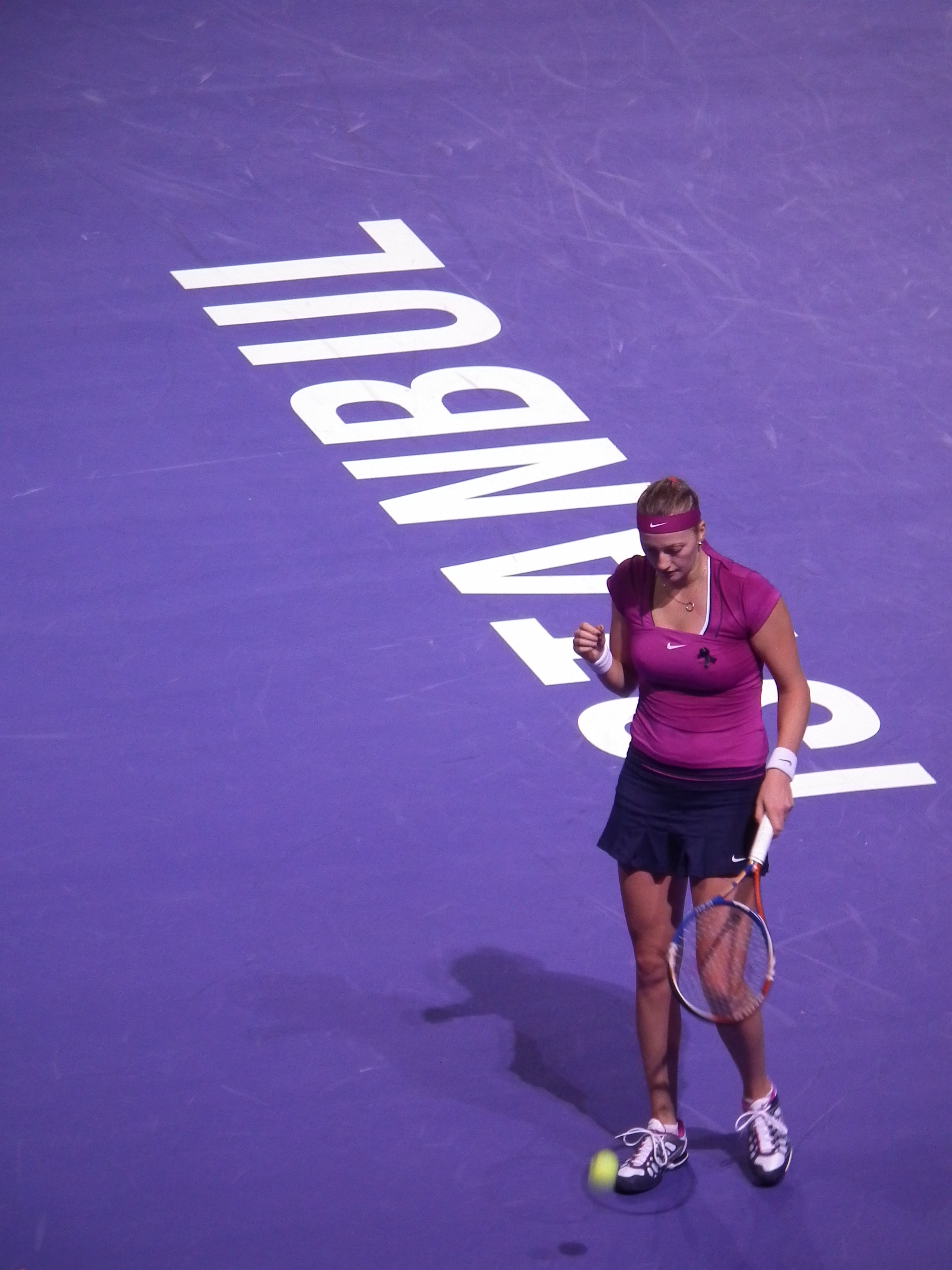 Petra Kvitová at WTA Istanbul 2011